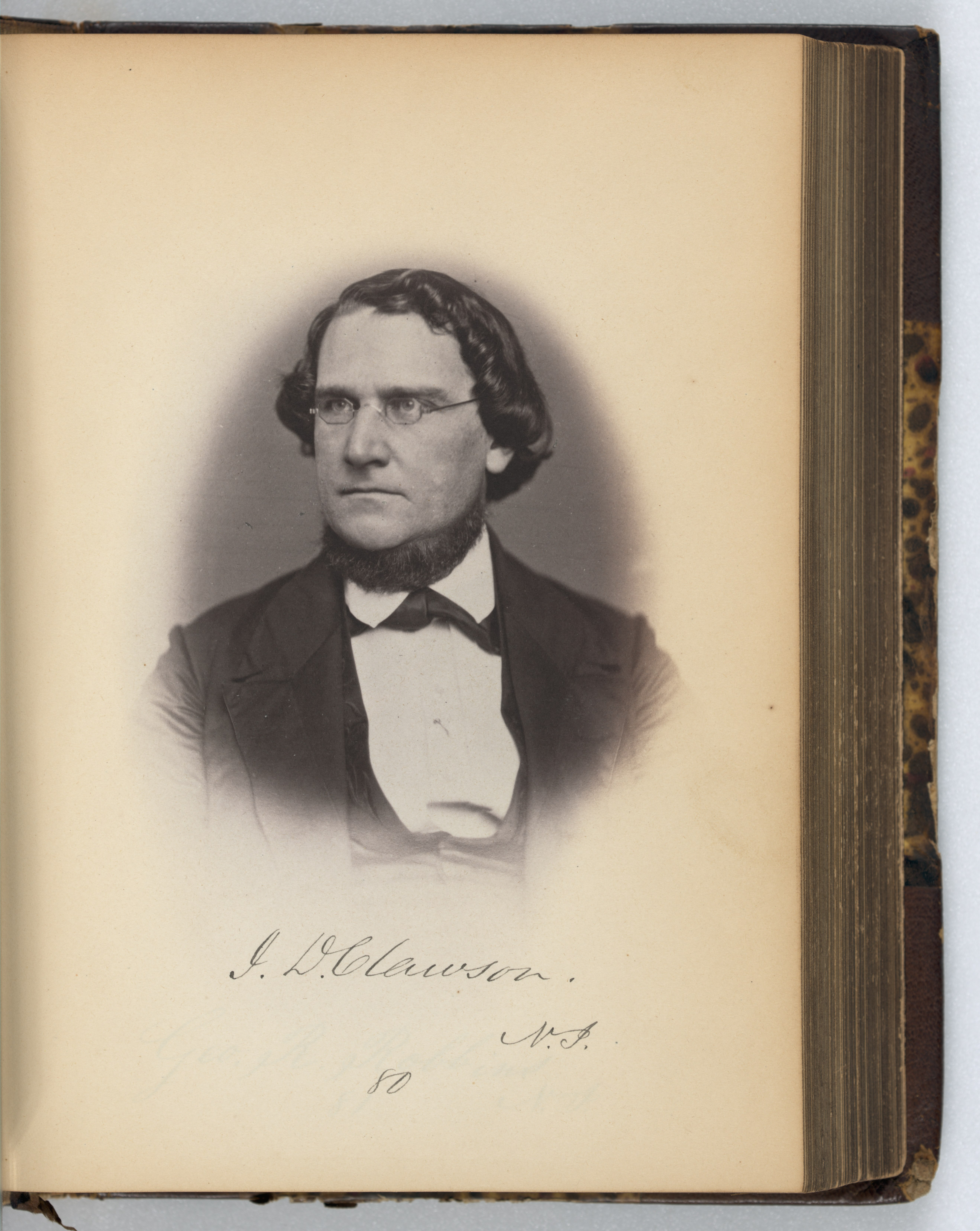 Title: Isaiah D. Clawson, Representative from New Jersey, Thirty-fifth Congress, half-length portrait Abstract/medium: 1 photographic print : salted paper ; 19.7 x 14.3 cm.